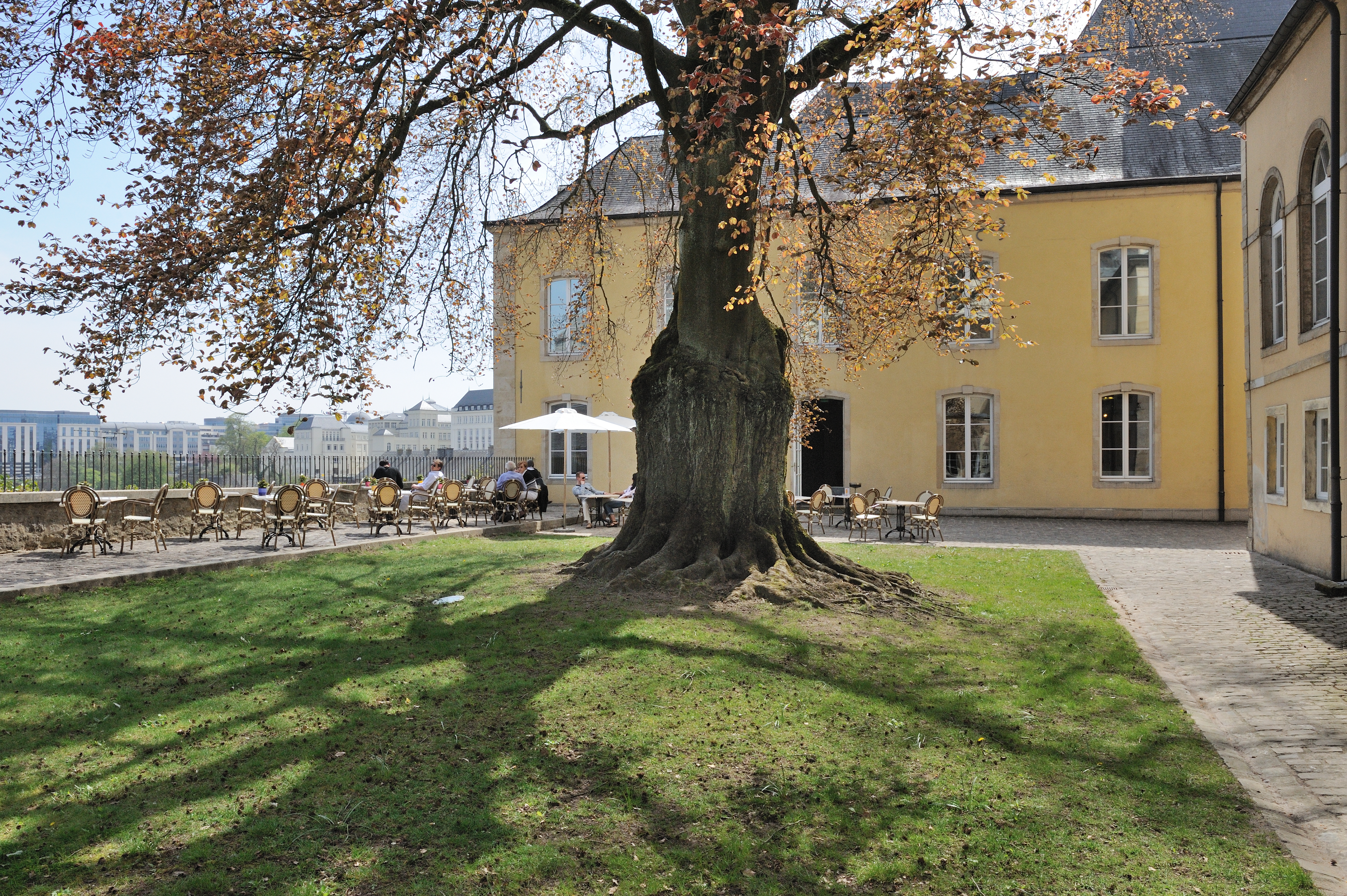 Luxembourg City: Court and terrace of the History Museum of the City. With a purple beech (Fagus sylvatica f. purpurea) listed as remarkable tree in Luxembourg.